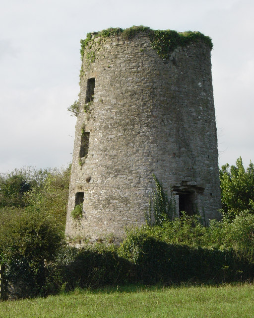 The windmill at Galmpton Warborough, Devon in 2005